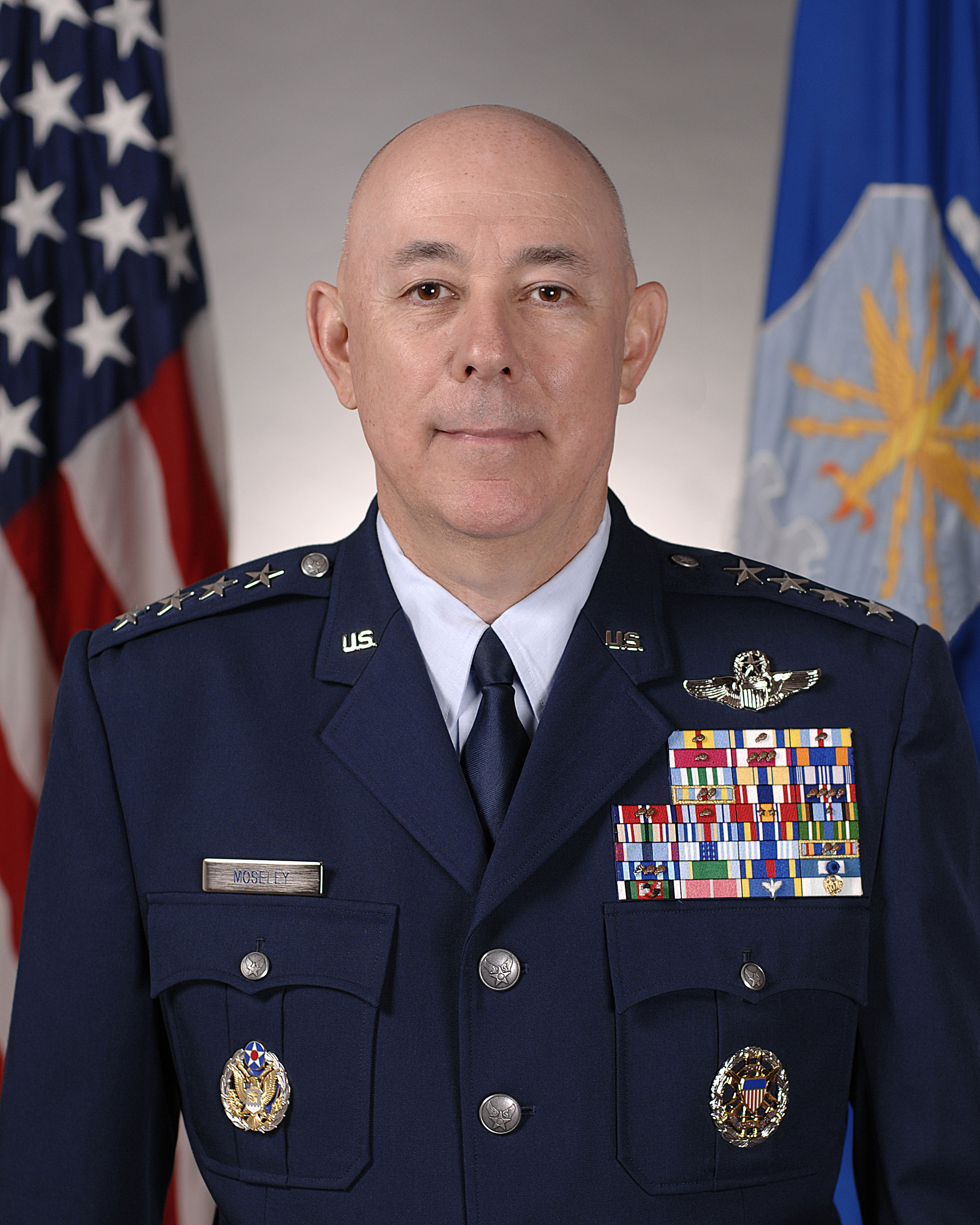 The last official photo of Gen T. Michael Moseley